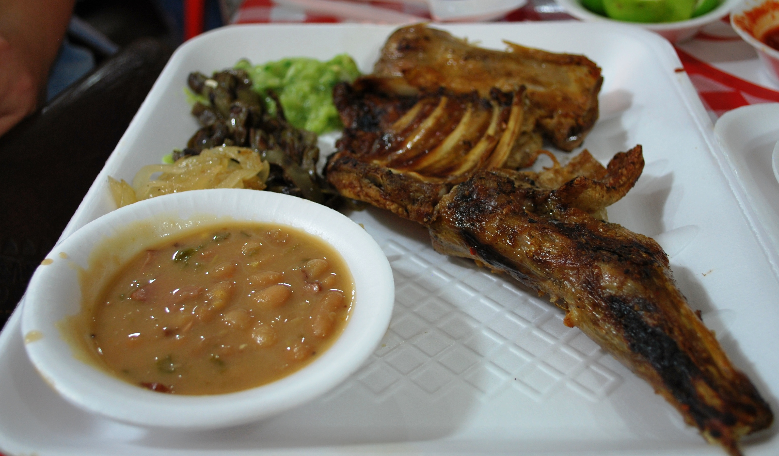 Plate of cabrito with beans and condiments at the Feria de Hidalgo in Pachuca, Hidalgo